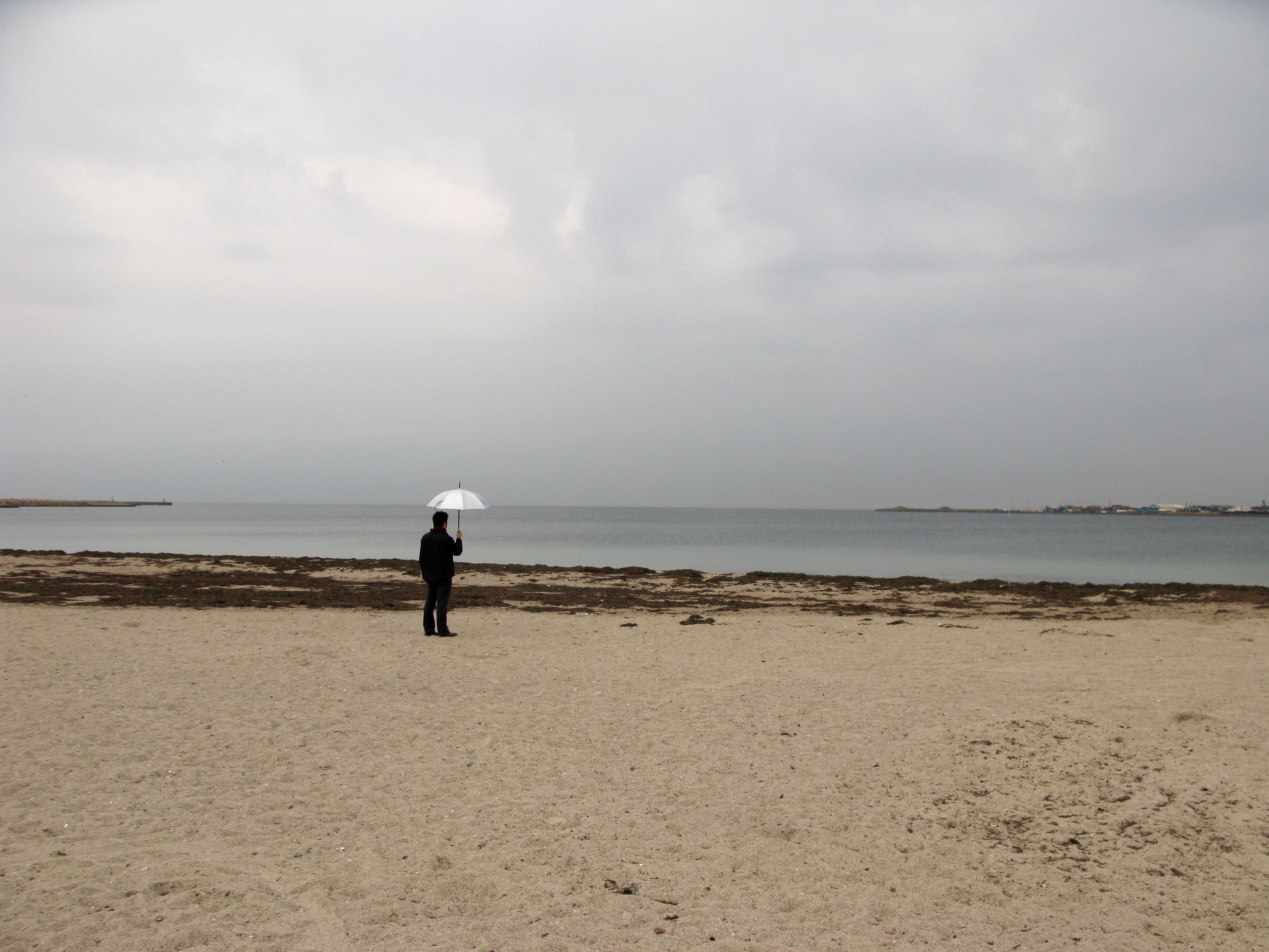 A rainy day on Svanemølle Beach in Copenhagen.